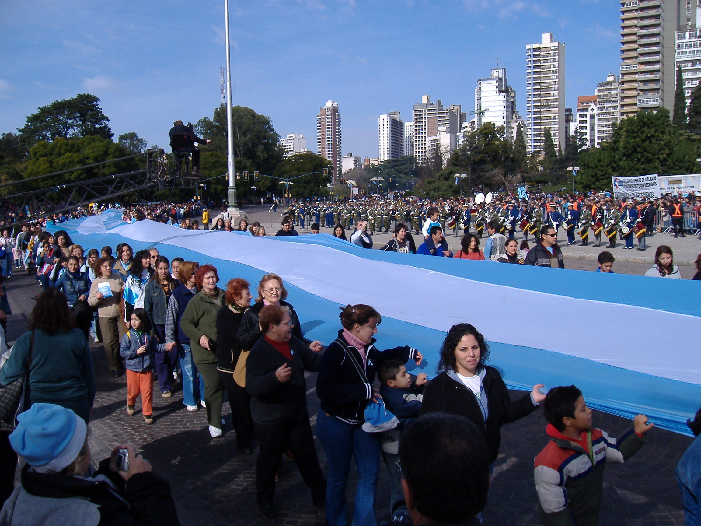 People carrying a part of the Argentine flag called Alta en el Cielo, the world's longest flag, during the civic parade of Flag Day (20 June) 2006, in Rosario, Argentina